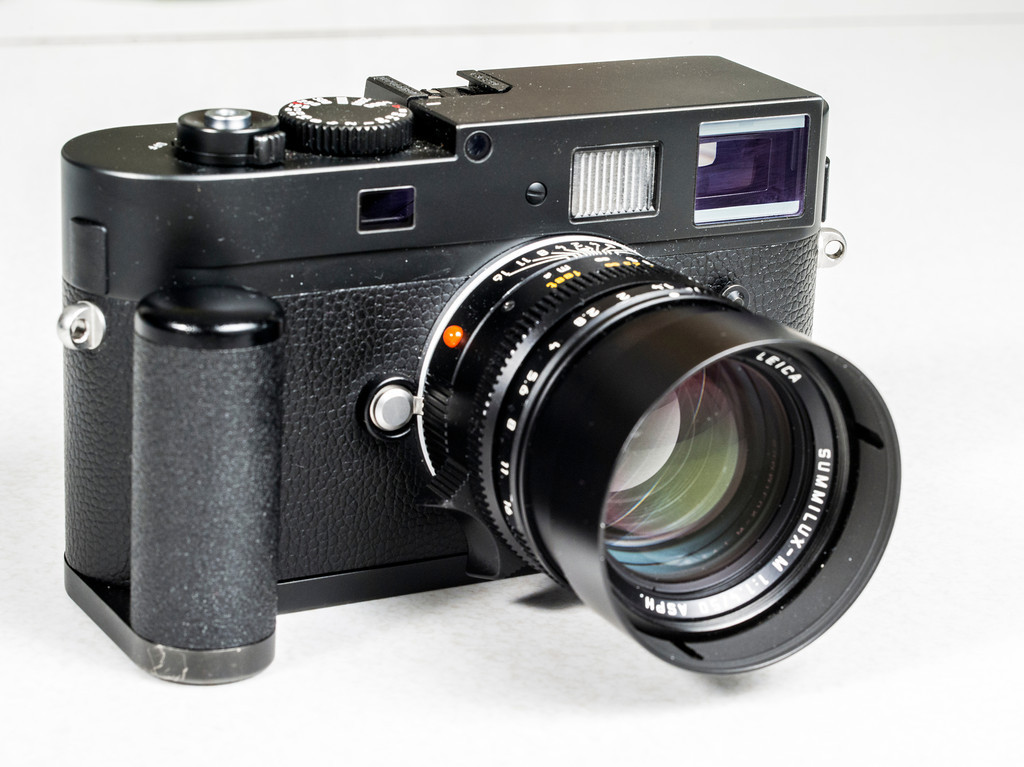 Leica M Monochrom with 50mm Summilux ASPH lens